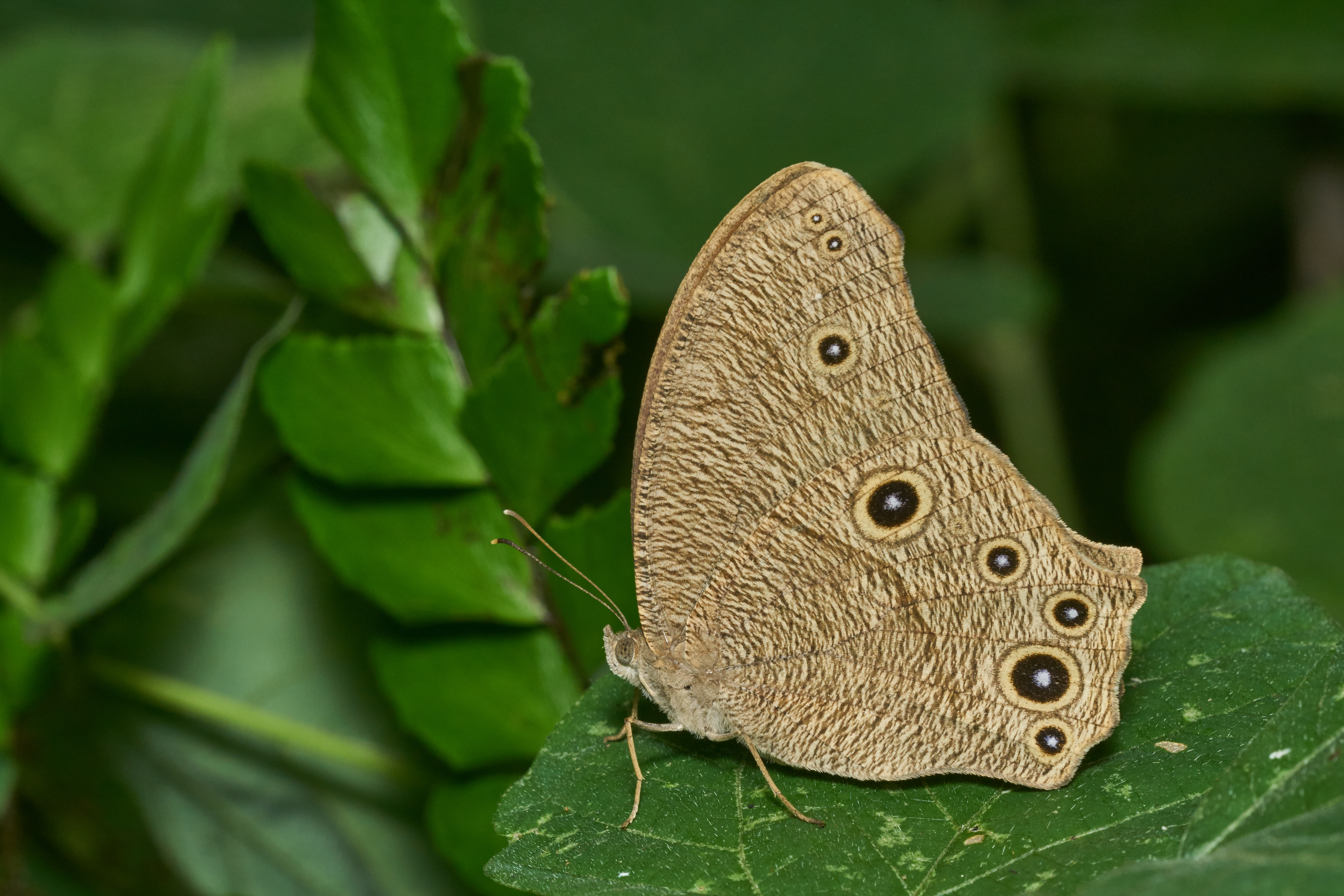 Melanitis leda, Common Evening Brown, is a species of butterfly found flying at dusk. This is wet season form.